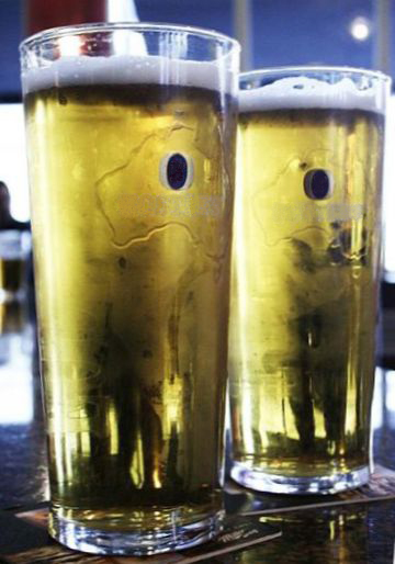 Two Fosters pint shooted in the "Turk's Head" public house in Dublin, Ireland.